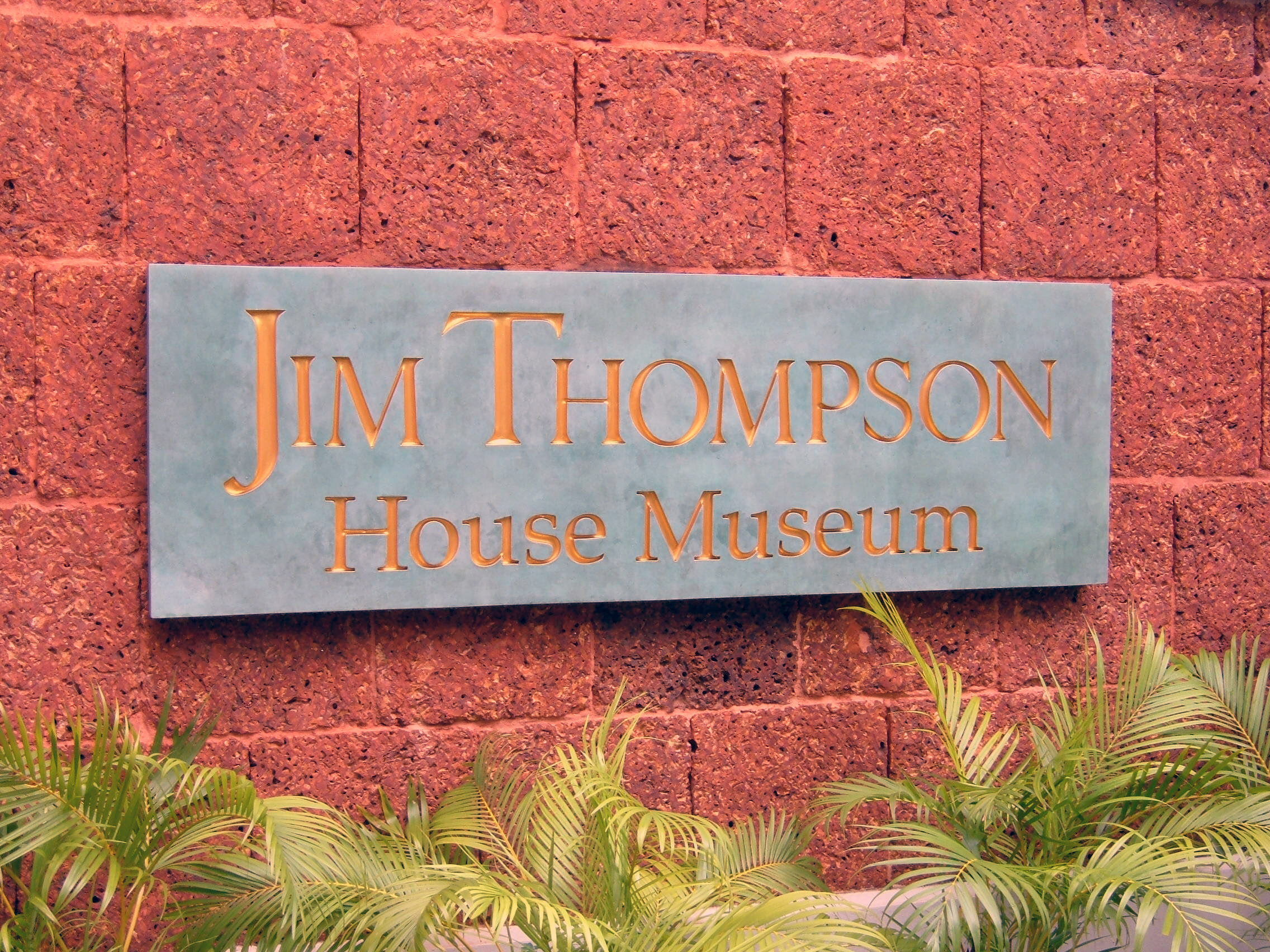 The sign for the Jim Thompson House Museum in Bangkok, Thailand at the entrance. Photography of the interior of the museum is forbidden and visitors must leave their cameras behind when touring the complex.